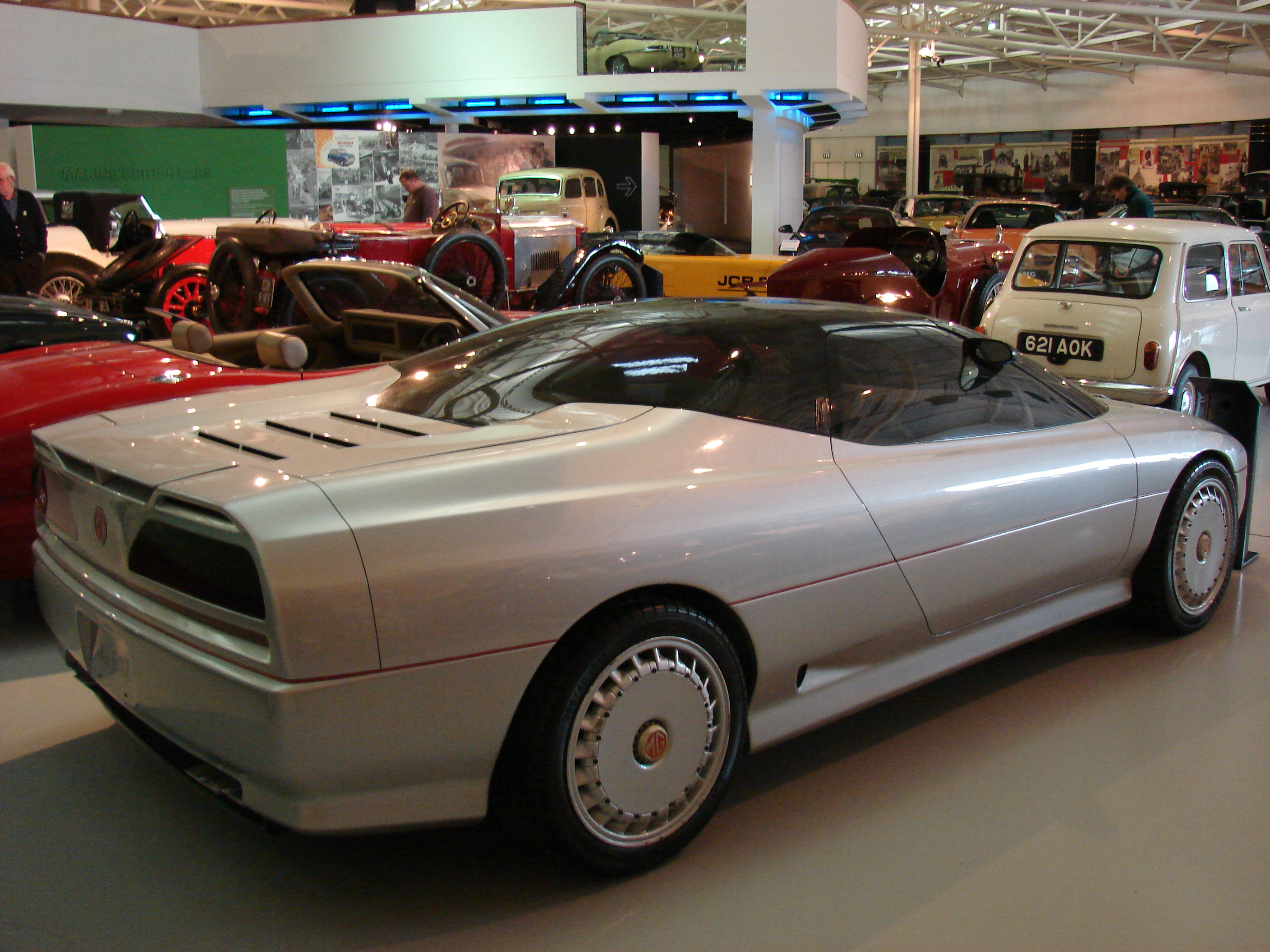 MG EX-E concept car from the rear. Photo taken in Heritage Motor Centre, Gaydon